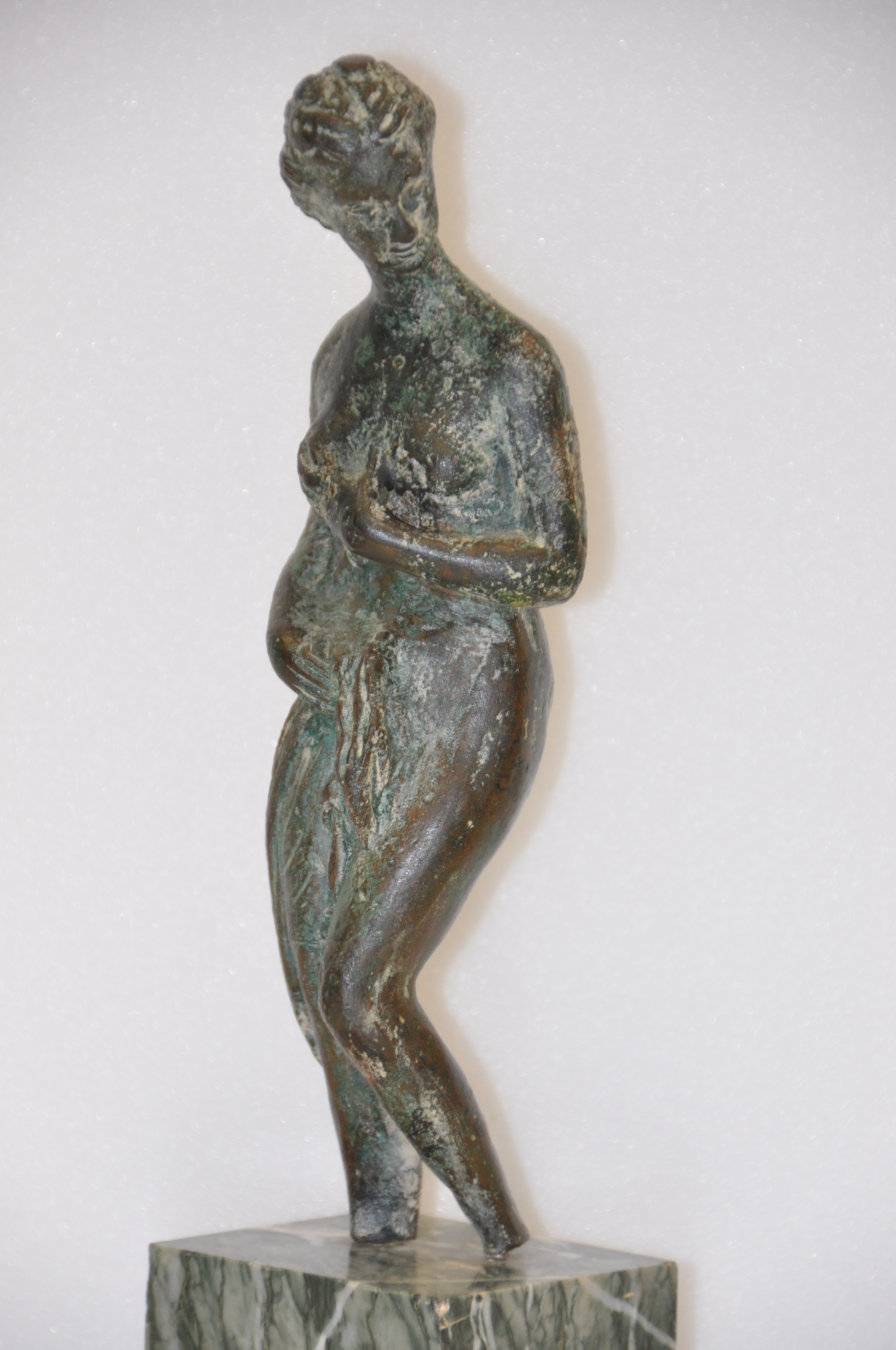 Aphrodite / Venus pudica (modest Venus). Bronze statuette called "Venus of Barcelona". Barcelona City History Museum MUHBA